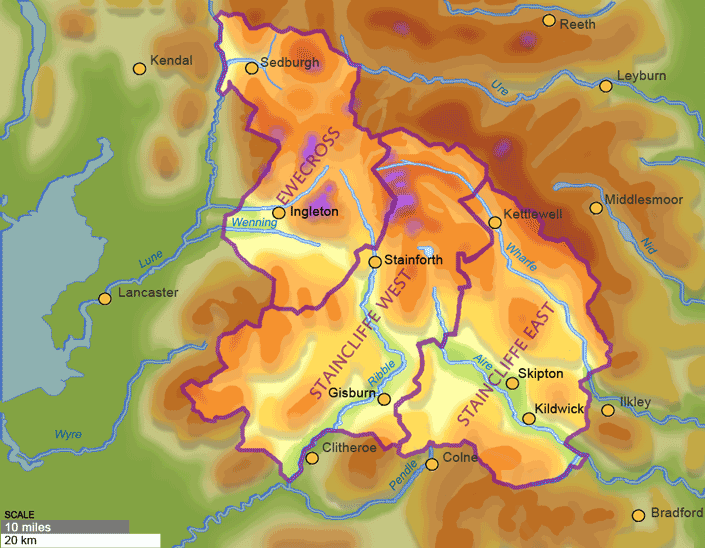 To collect the Danegeld tax in 991–1016 the Anglo-Saxons divided their territory into tax districts. The Staincliffe wapentake and Ewcross wapentakes covered the region we have called Craven District since 1974, but also parts of areas beyond it such as Forest of Bowland and South Cumbria